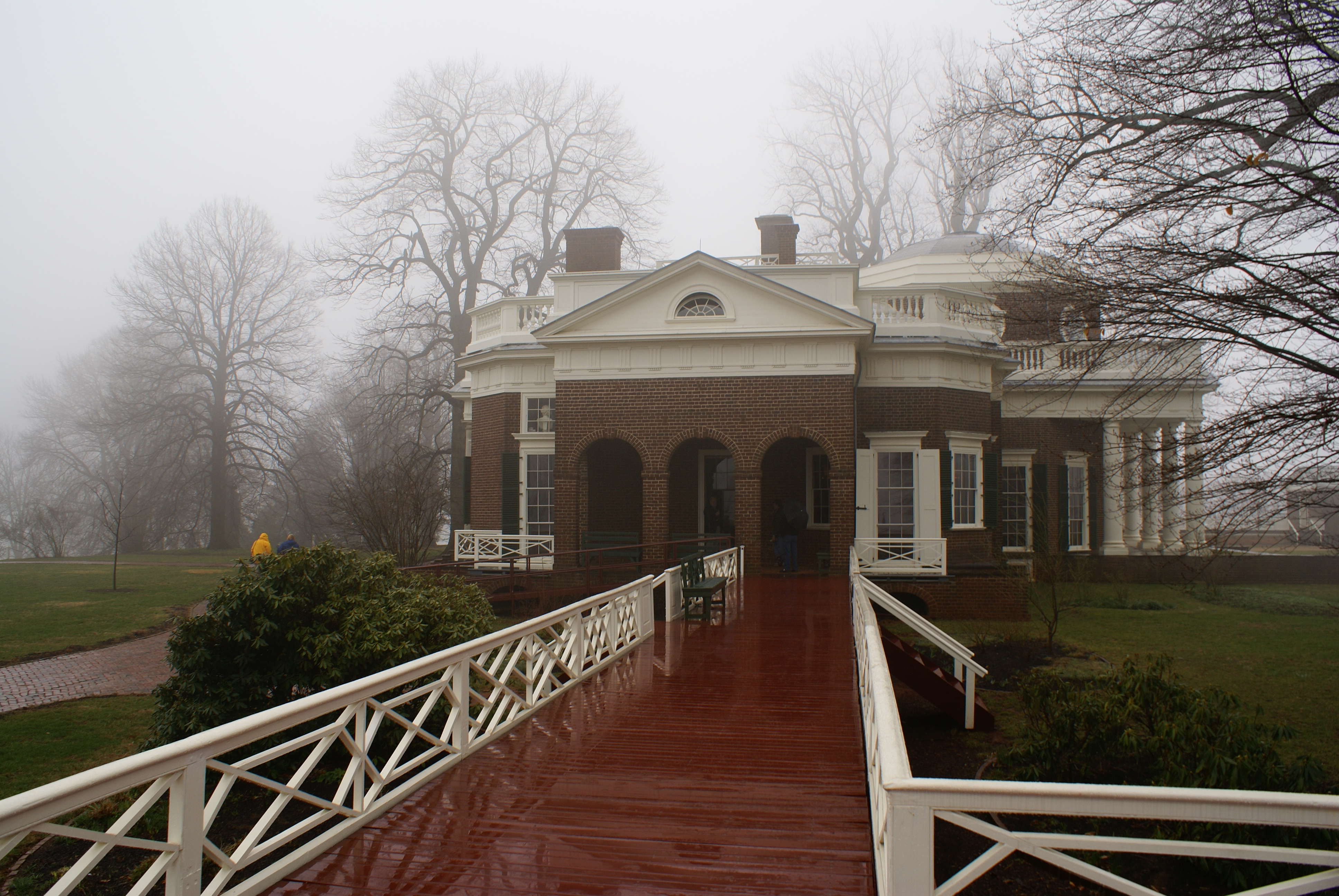 Monticello near Charlottesville, Virginia, USA - seen from the north (or more precisely, from north-northeast)